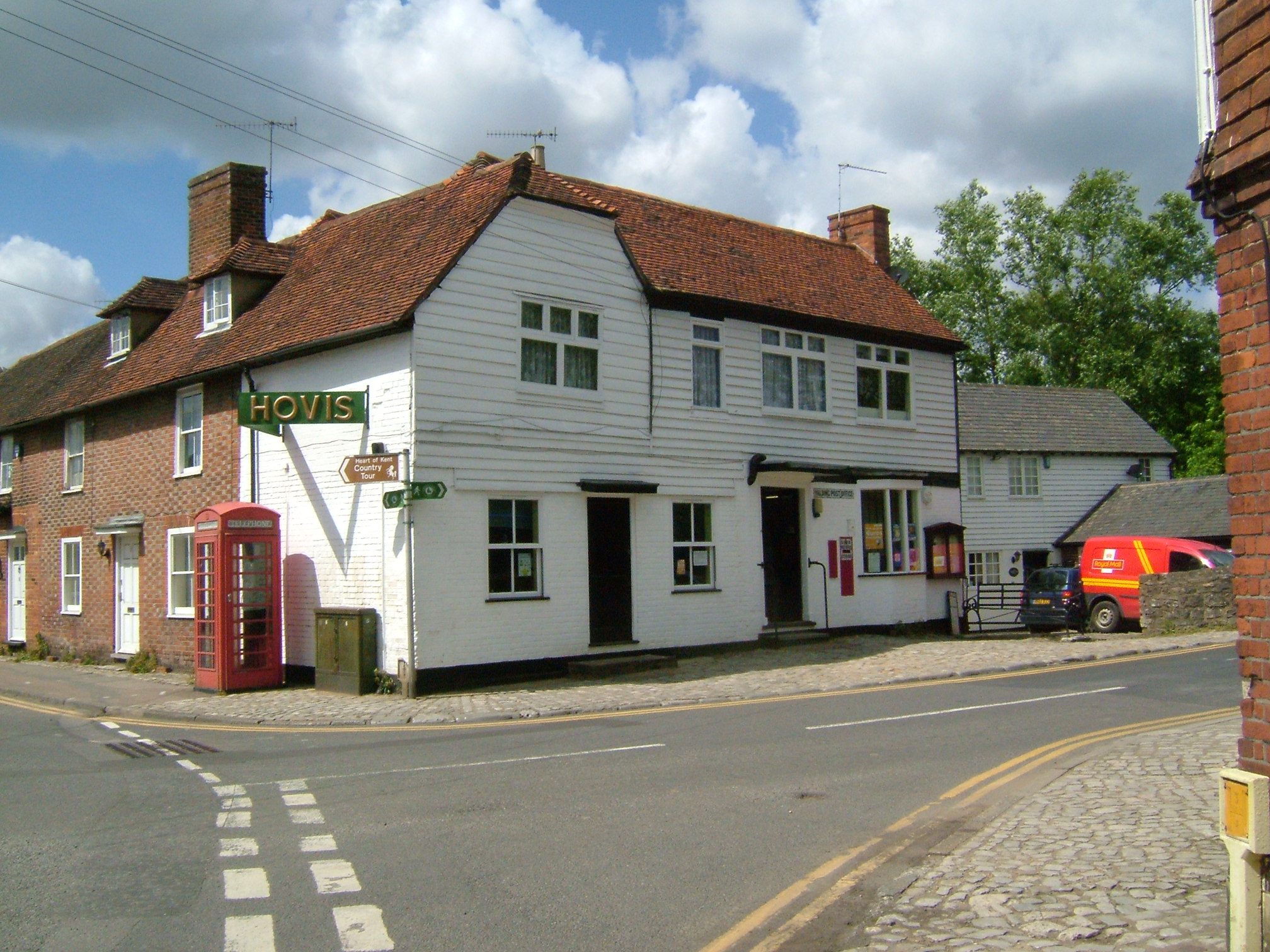 Yalding, the junction of High Street and Lees Road showing the post office, with telephone box. The building is white shiplap, with Kentish peg tile roof, behind building with decorative brickwork, and dormer window in the pegtile roof. This spot lies on the Greensand Way, and the Heart of Kent Country Tour.